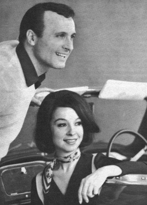 Photo of singers April Stevens and Nino Tempo (who were brother and sister). The paper was produced for KRLA Radio, Los Angeles, in the mid 1960s.